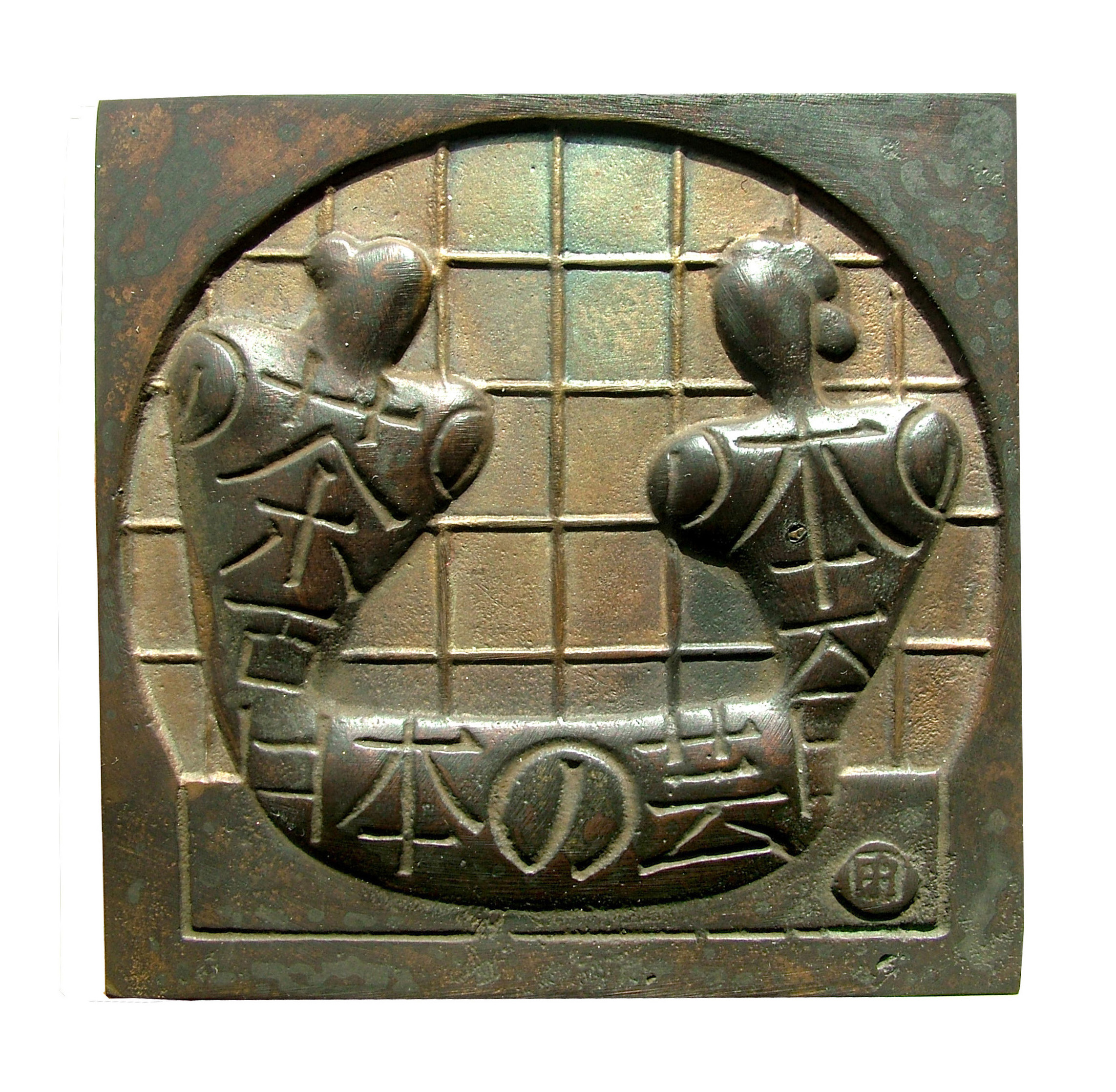 TEE CEREMONY 2 2009, brass, 100 x 100 mm